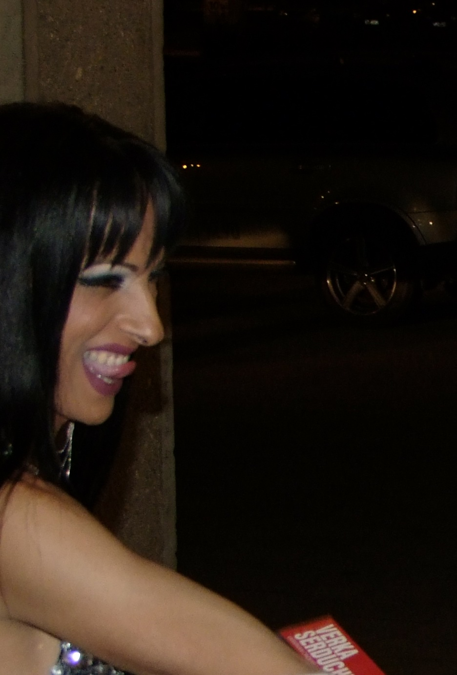 Dana International (born February 2, 1972) is an Israeli pop singer